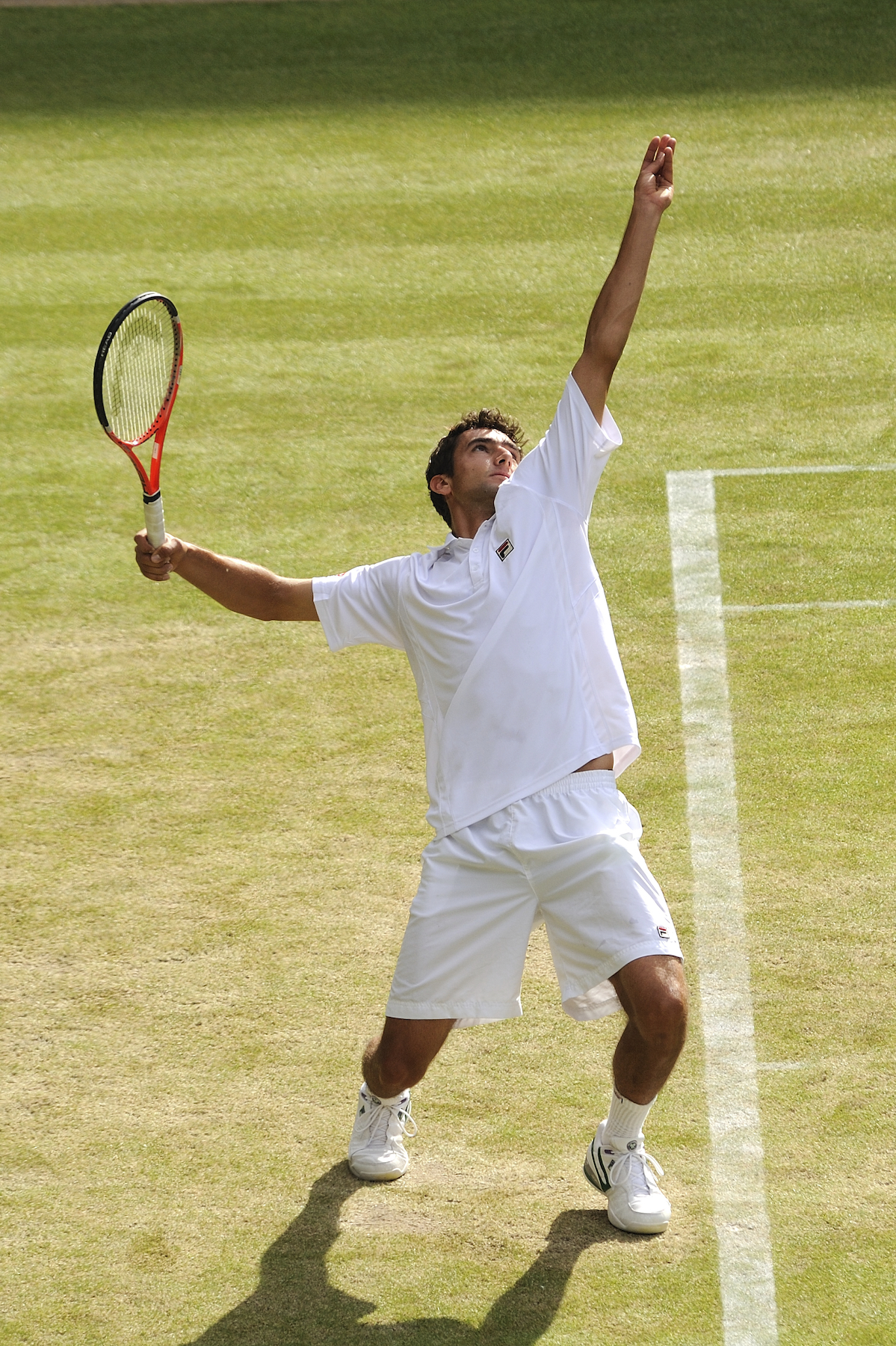 Marin Čilić against Sam Querrey in the 2009 Wimbledon Championships second round